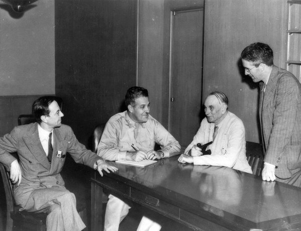 Scientific advisories consult with Major General Leslie R. Groves, Officer in Charge of Manhattan Engineer District.